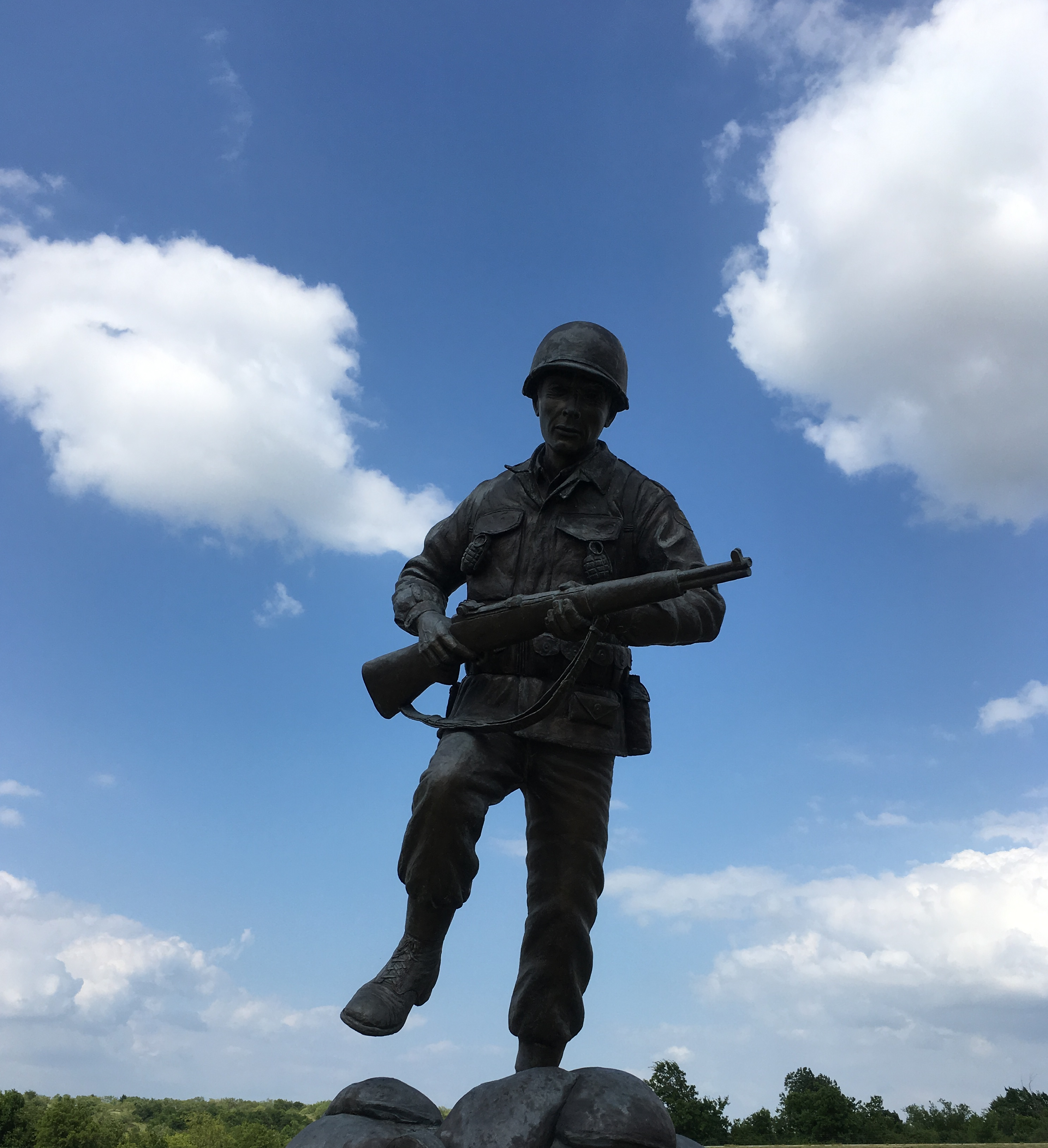 Statue of soldier in combat from US Army's 103rd Division, located at Texas Welcome Center along Interstate Highway 35. The statue is mounted on a granite base which has plaques bearing information about the 103rd Division.